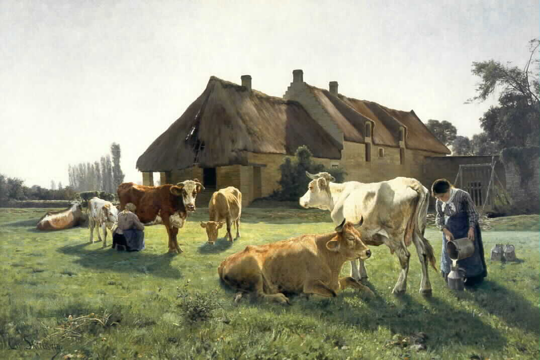 work presented at the Salon des artistes français in Paris 1881